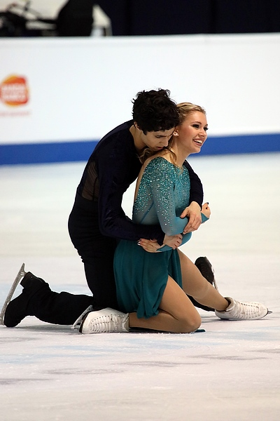 Marjorie Lajoie and Zachary Lagha - 2019 Junior Worlds